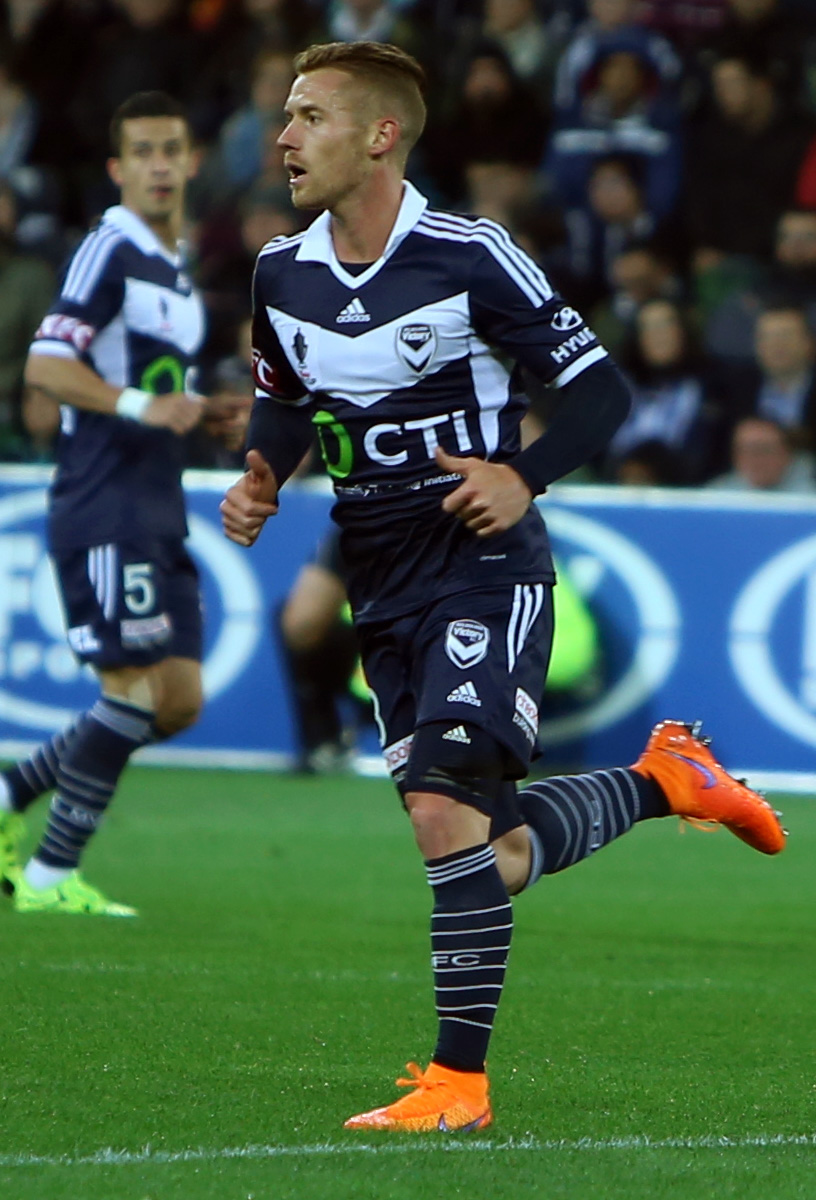 Oliver Bozanic playing for Melbourne Victory against Adelaide United in the FFA Cup, September 2015